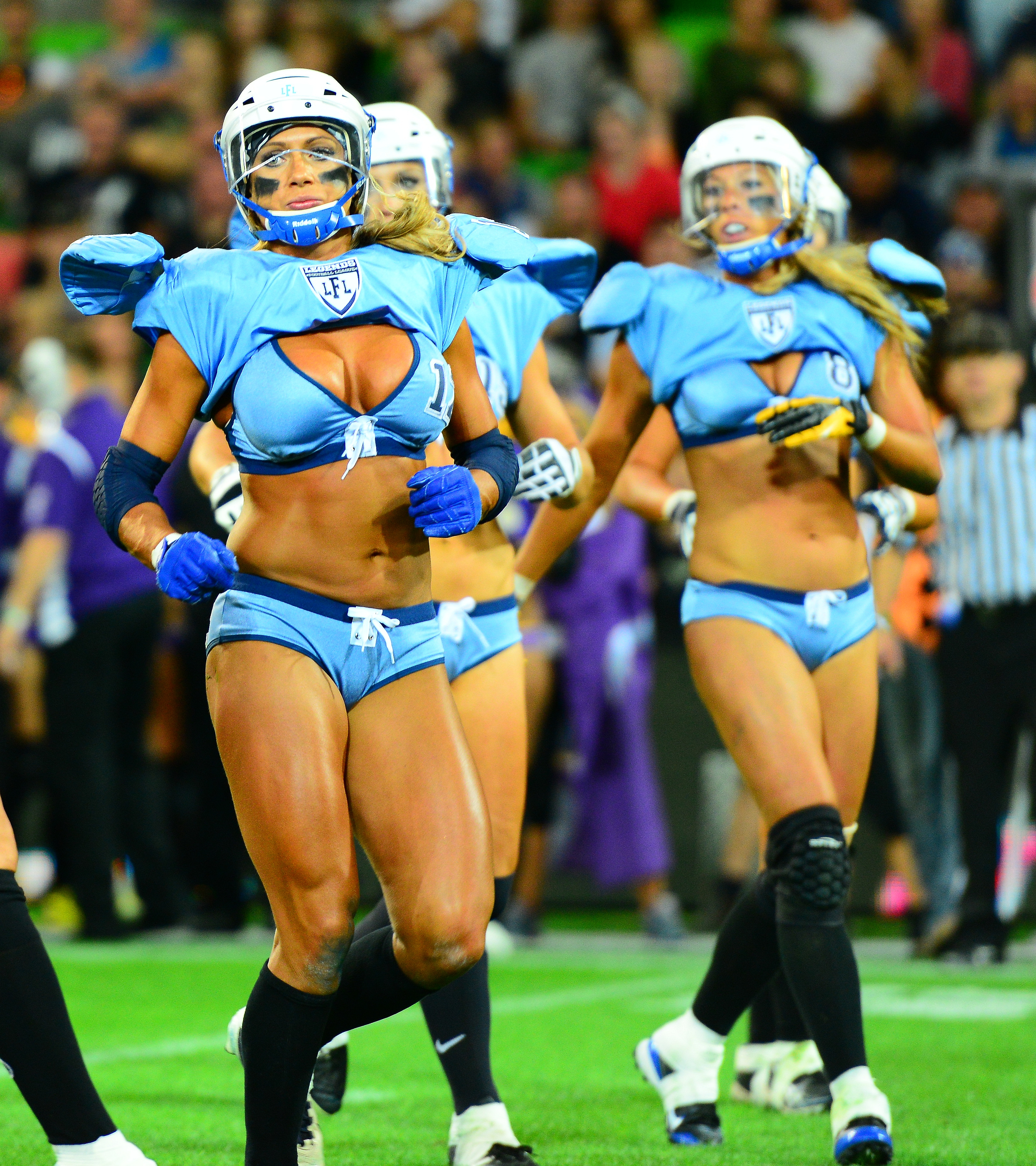 Legends Football League Australia - (Victoria Maidens vs NSW Surge)